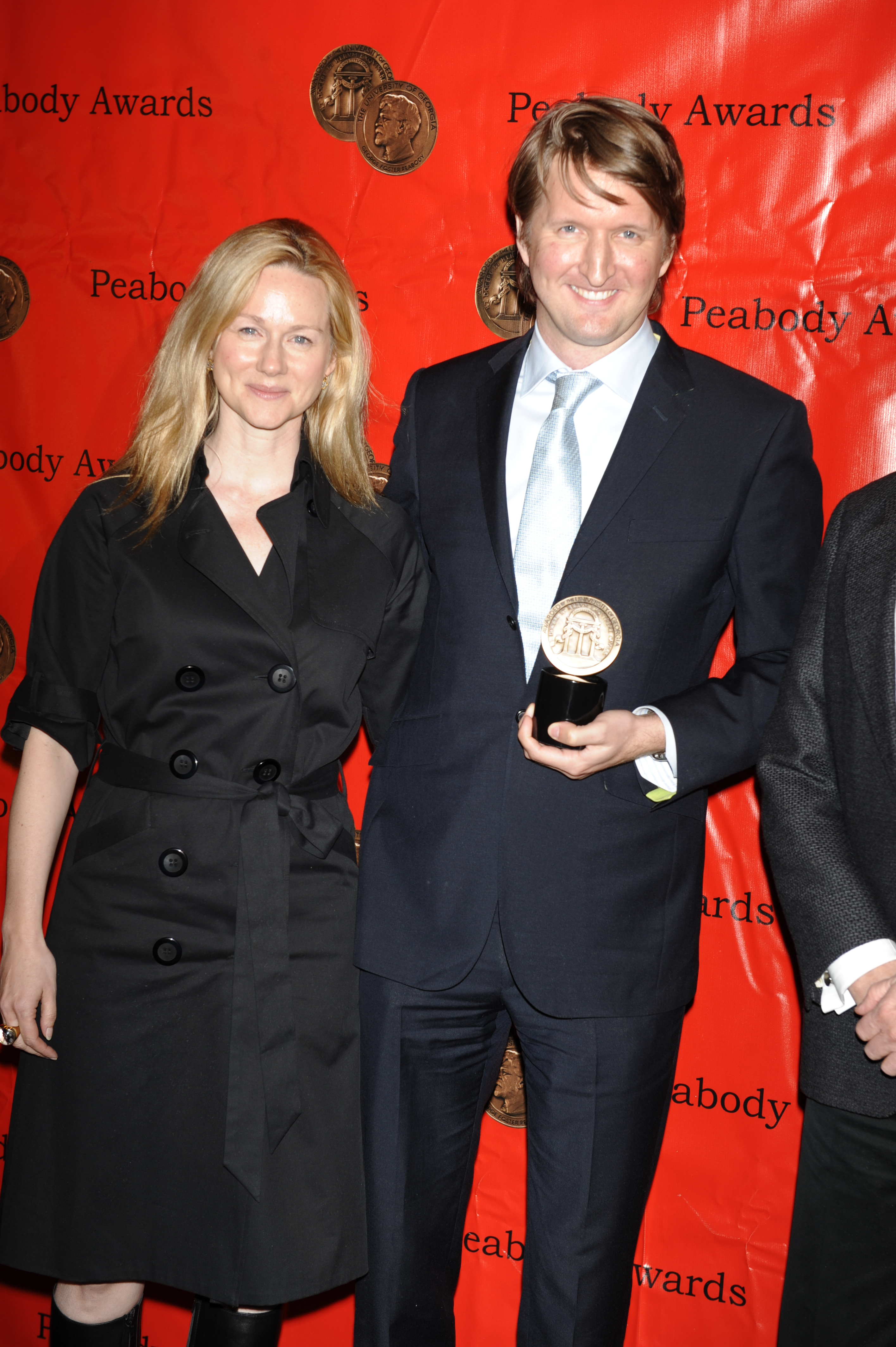 PHOTO CREDIT: ANDERS KRUSBERG / PEABODY AWARDS Laura Linney and Tom Hooper 68th Annual Peabody Awards Luncheon Waldorf=Astoria Hotel New York, NY USA May 18, 2009